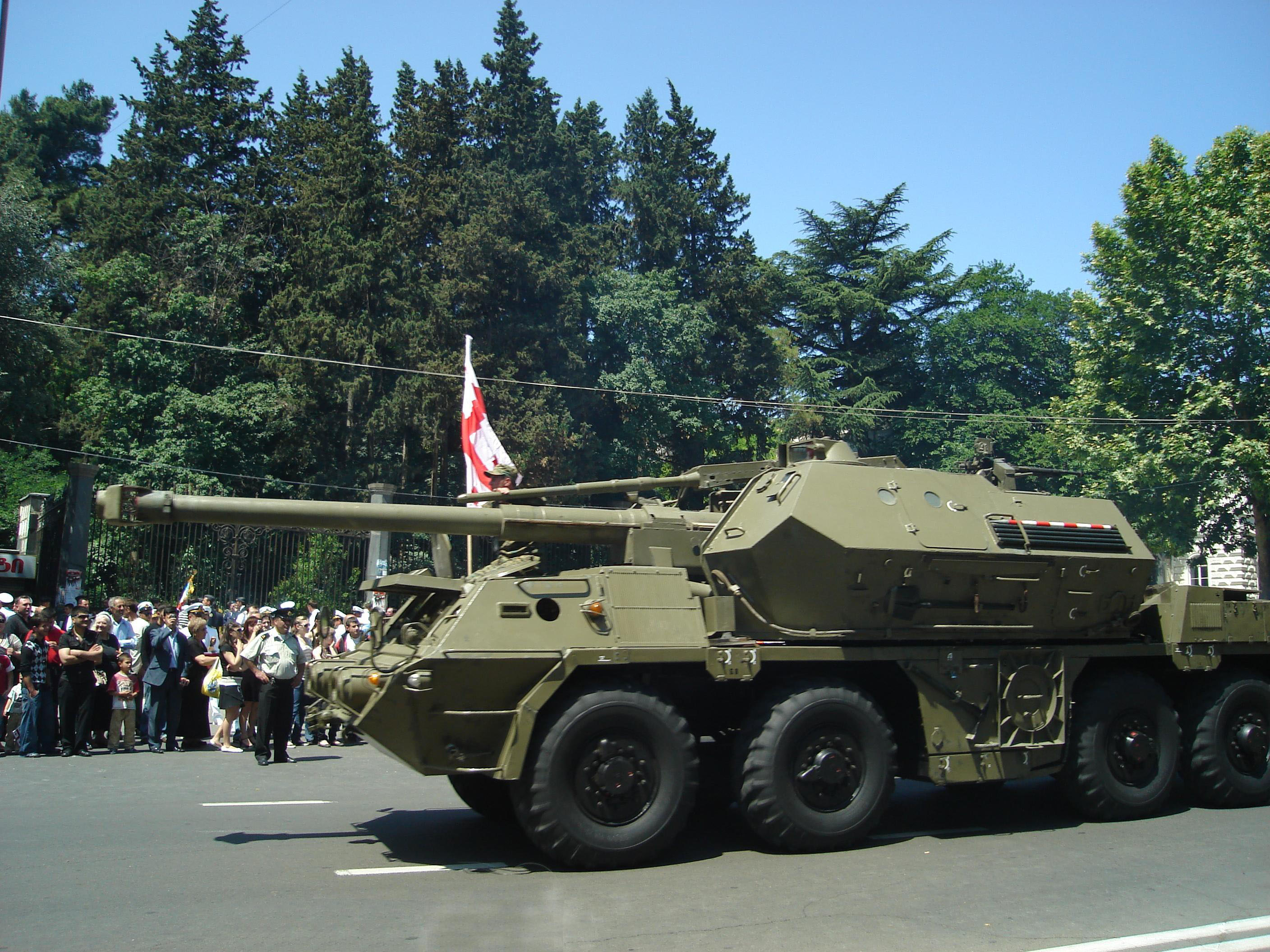 152mm SpGH DANA in Georgia. Independence Day parade in Tbilisi. May 26, 2008.